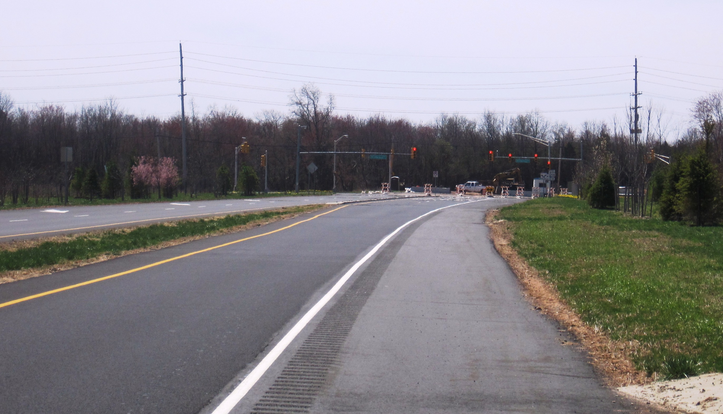 Temporary southern terminus of the US 206 Bypass at Hillsborough Road in Hillsborough Township, New Jersey.